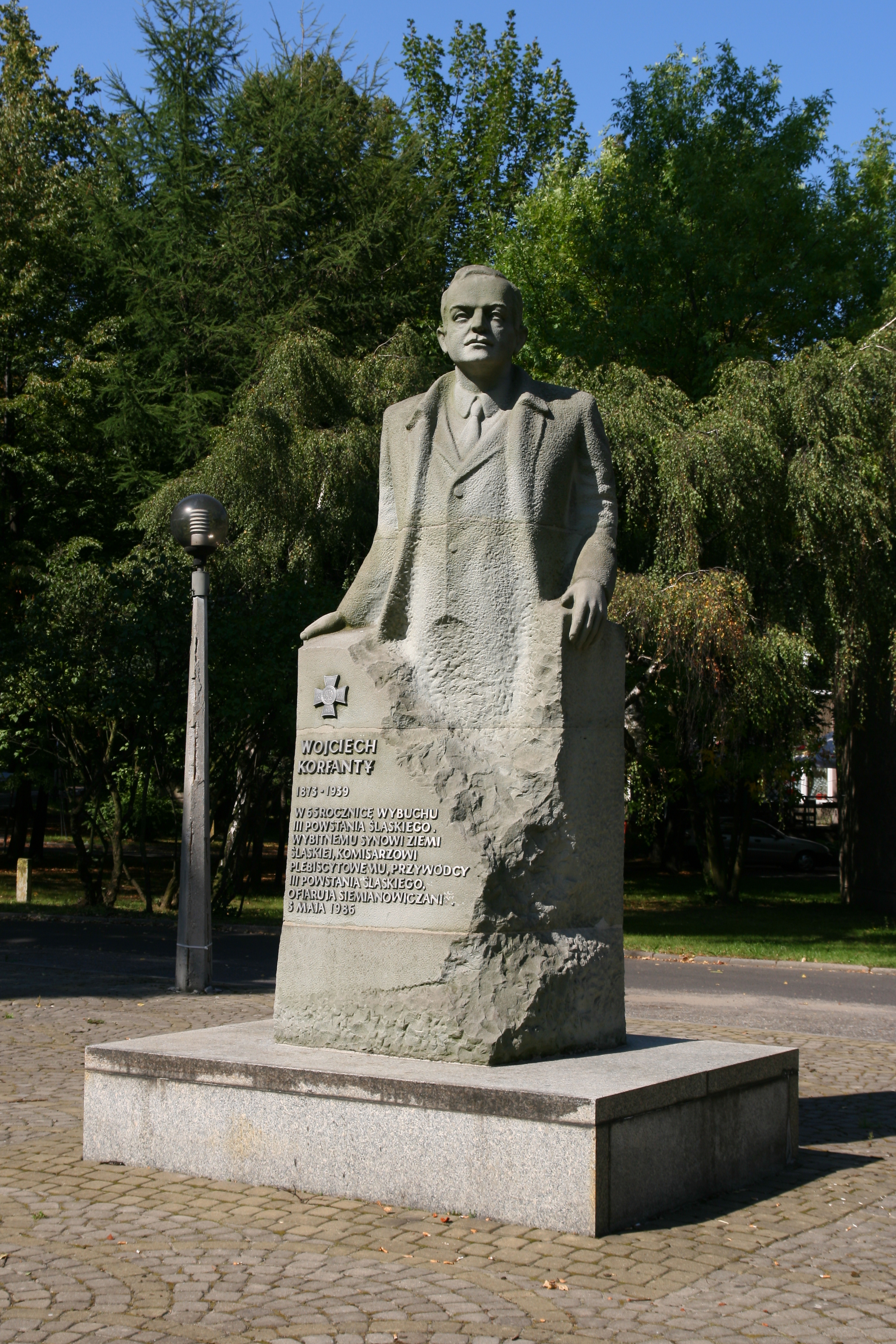 Statue of Wojciech Korfanty in Siemianowice Śląskie (Poland).